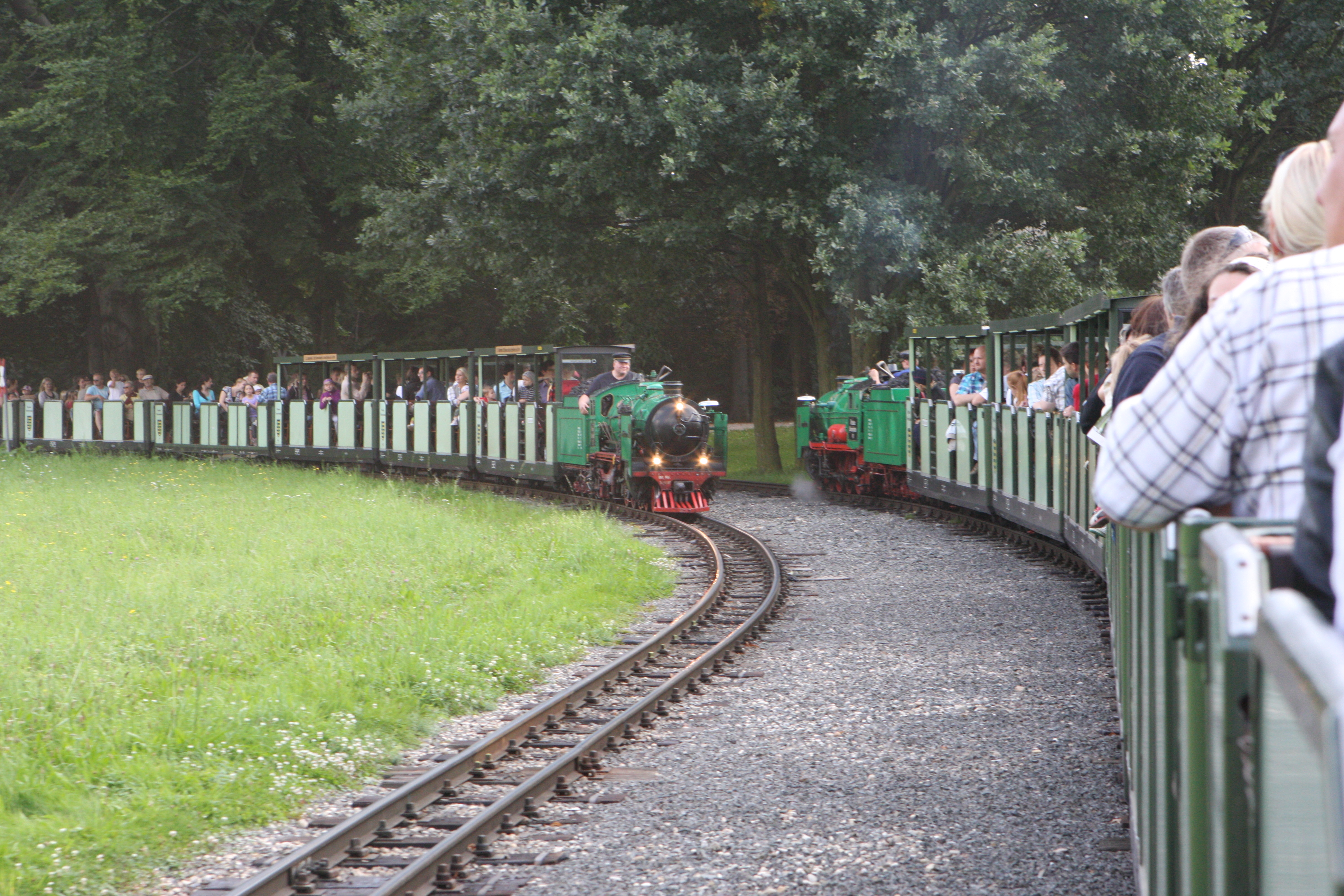 Dresden Park Railway